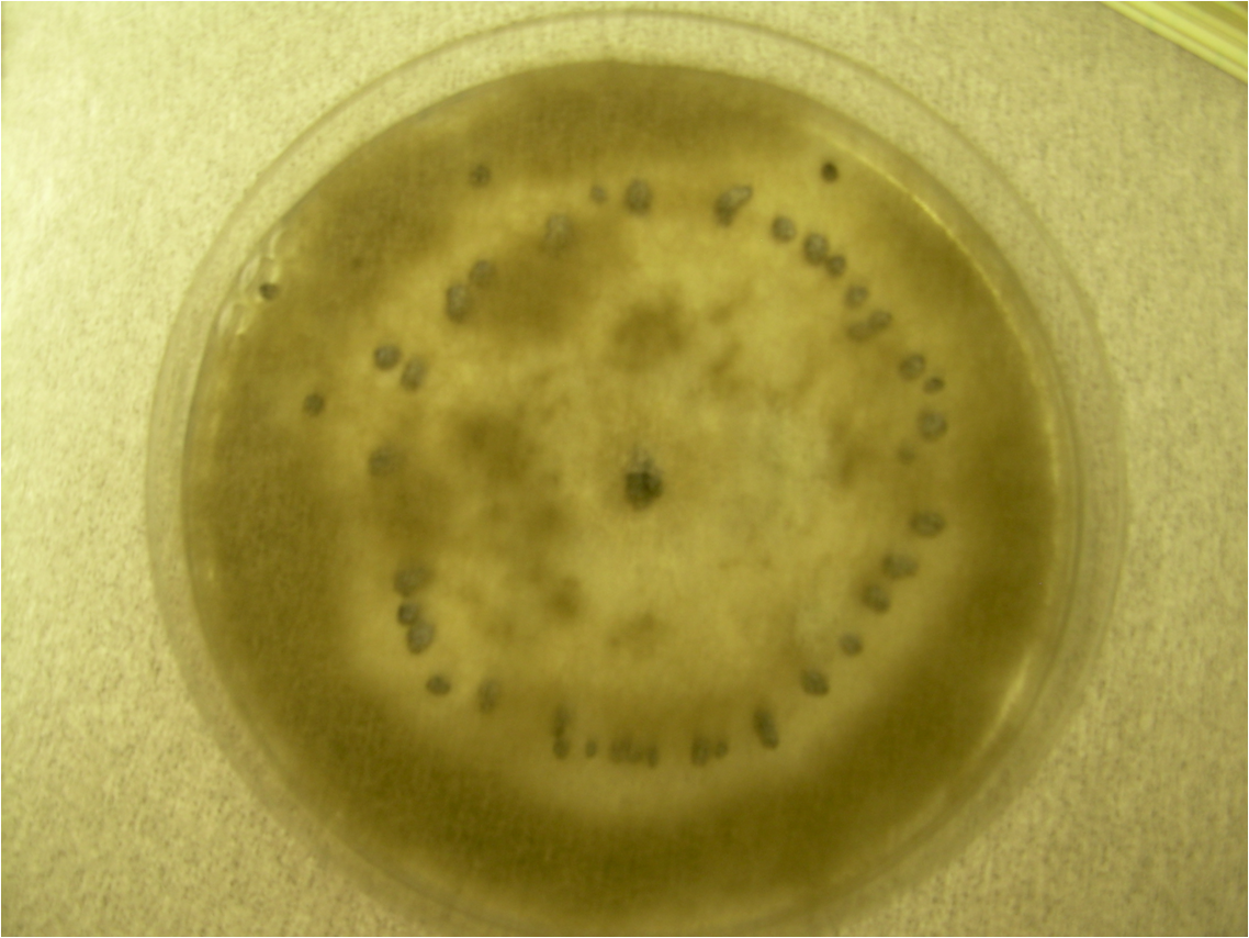 Botrytis cinerea growing on a potato dextrose agar plate. Identified using Barnett, H. L. & Hunter, B. B. (1998) Illustrated Genera of Imperfect Fungi. APS Press: St. Paul, MN; pp. 76–7 ISBN 0-89054-192-2. Recovered from strawberry (Fragaria × ananassa Duchesne). Host status confirmed using Farr, D. F., Bills, G. F., Chamuris, G. P., & Rossman, A. Y. (1995) Fungi on Plants and Plant Products in the United States. APS Press: St. Paul, MN; pp. 466–7 ISBN 0-89054-099-3.